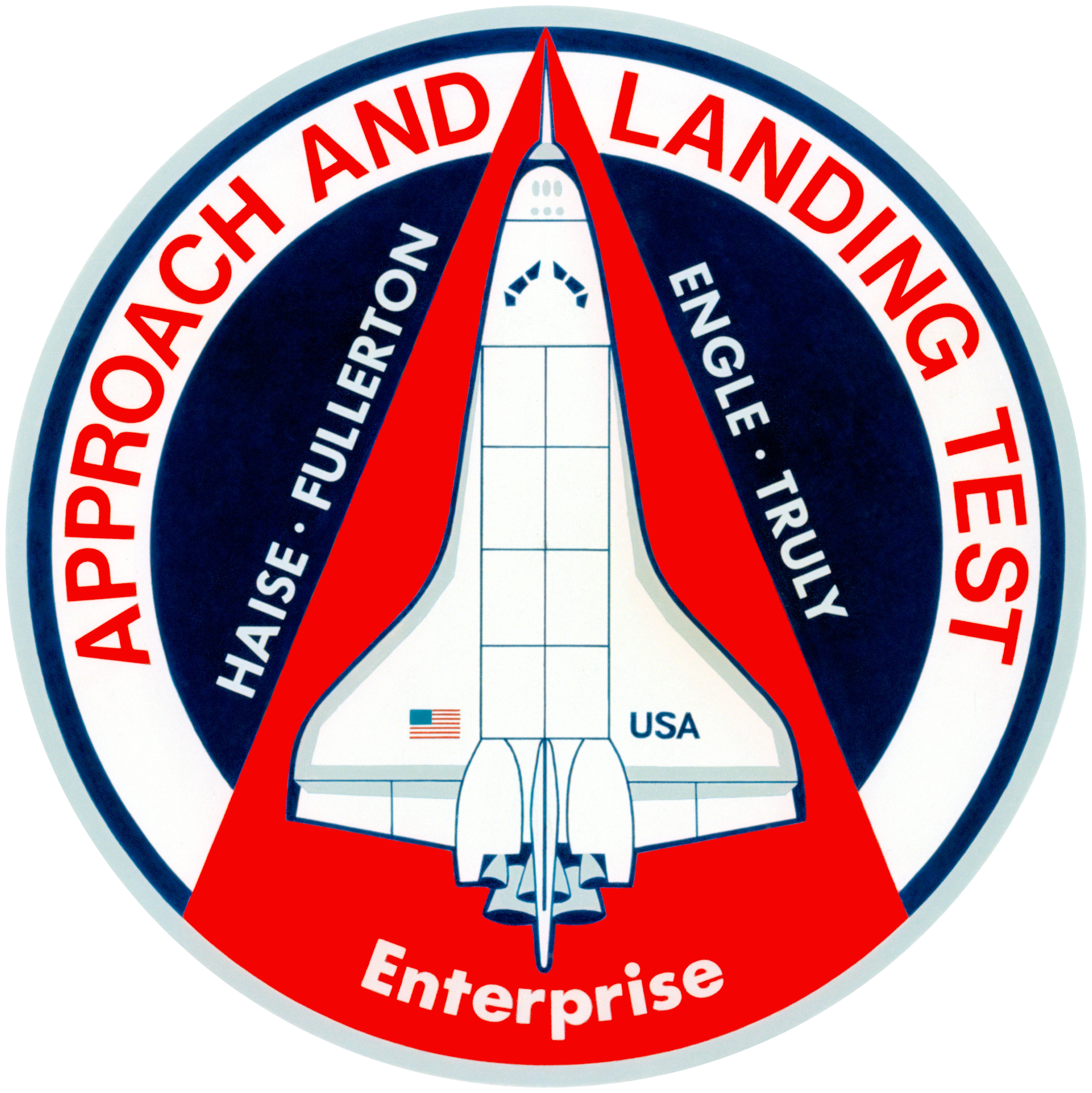 The official patch for the Approach and Landing Tests flown by the Space Shuttle Enterprise during 1977. This circular, red, white and blue emblem has been chosen as the official insignia for the Space Shuttle Approach and Landing Test (ALT) flights. A picture of the Orbiter 101 "Enterprise" is superimposed over a red triangle, which in turn is superimposed over a large inner circle of dark blue. The surnames of the members of the two ALT crews are in white in the field of blue. The four crew men are astronauts Fred W. Haise Jr., commander of the first crew; Joe H. Engle, commander of the second crew; and Richard H. Truly, pilot of the second crew. ALT is a series of flights with a modified Boeing 747 Shuttle Carrier Aircraft (SCA) as a ferry aircraft and airborne launch platform for the 67,300 kilogram (75-ton) "Enterprise". The Shuttle Orbiter atmospheric testing is in preparation for the first Earth-orbital flights scheduled in 1979.